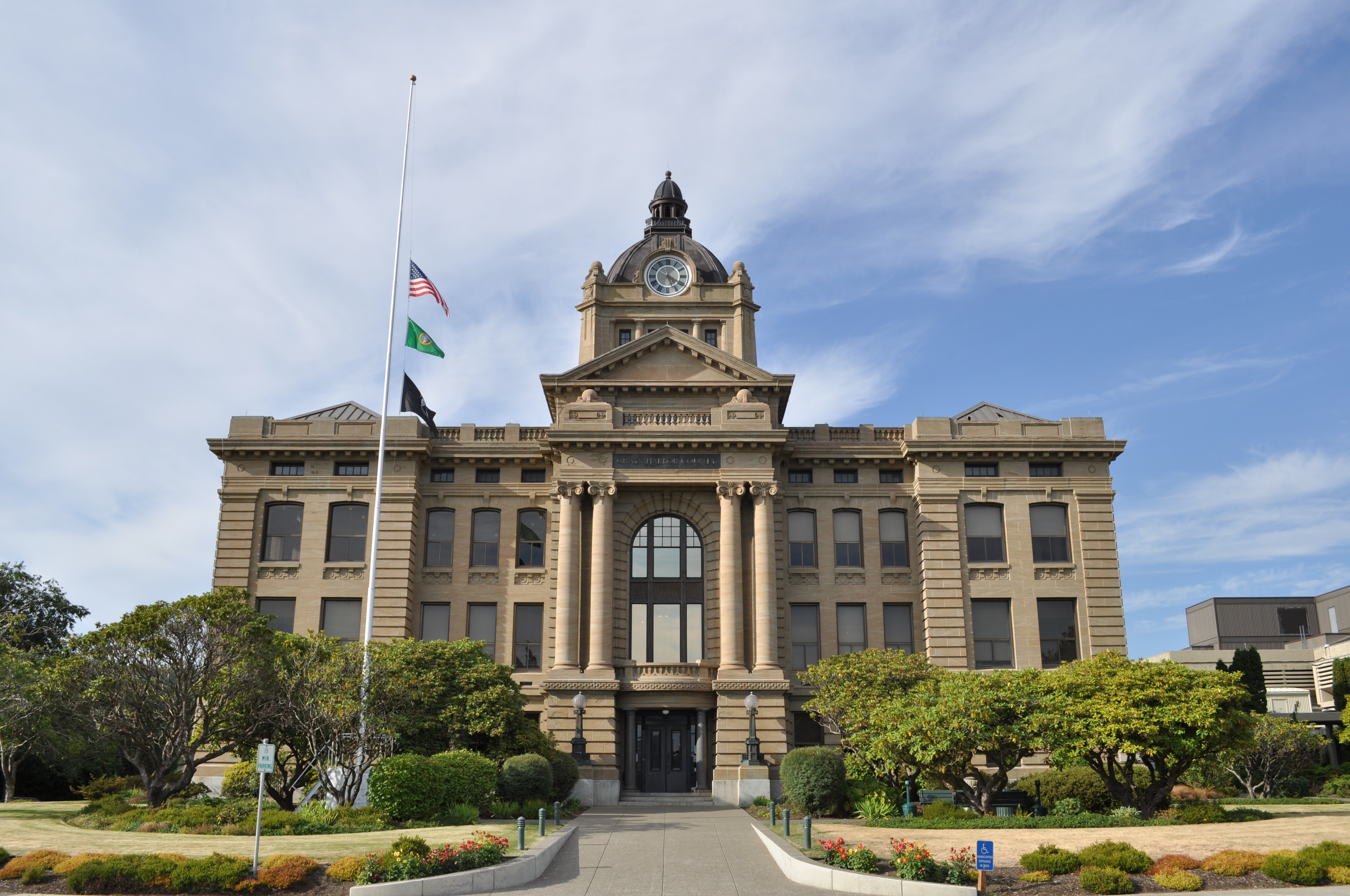 Grays Harbor County Courthouse, Montesano, Washington.